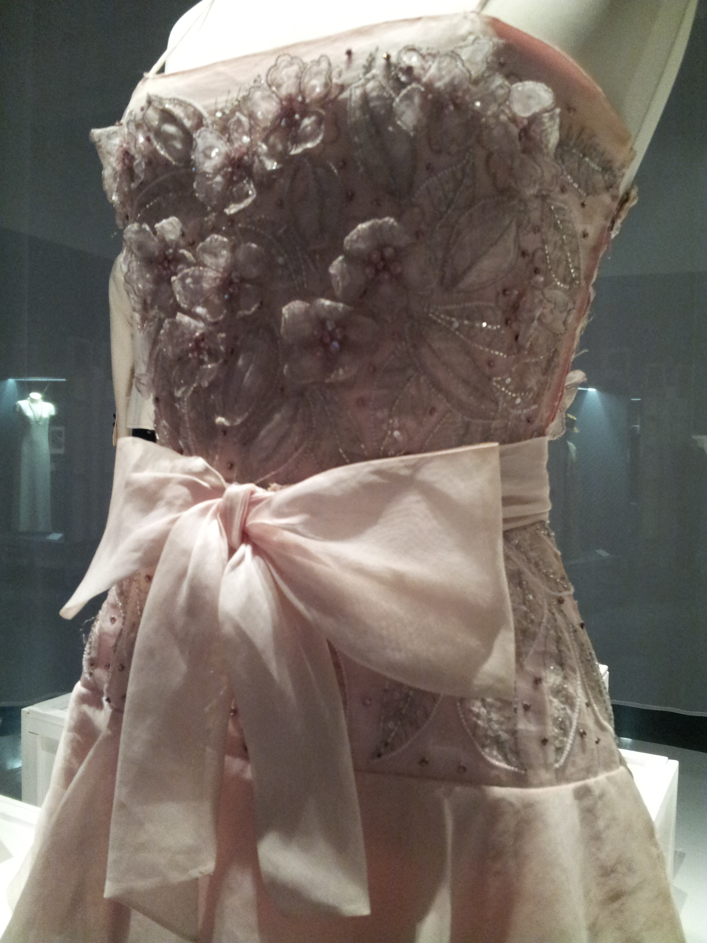 1970s evening dress by Nina Ricci. Pale pink silk organza with beaded embroidery.